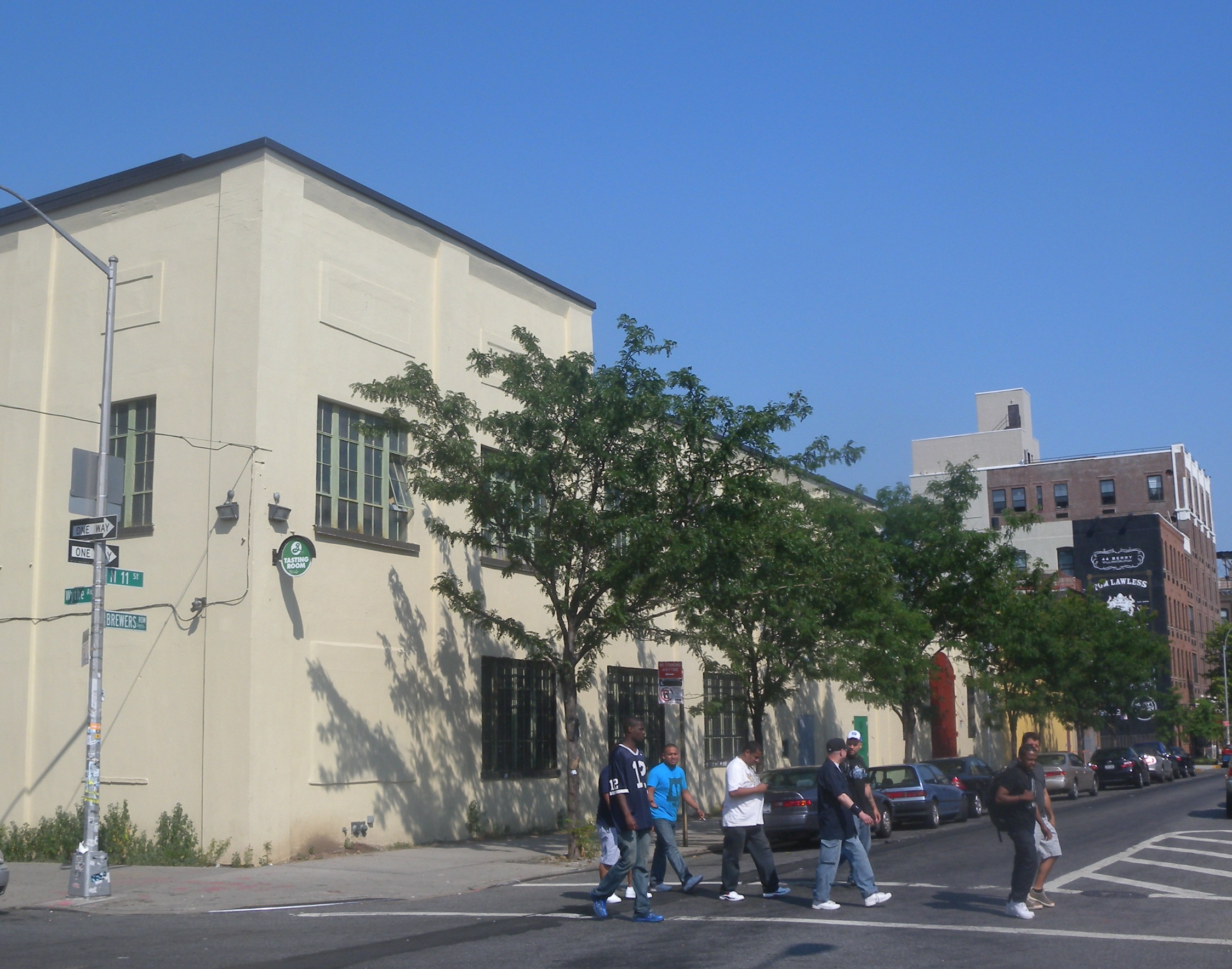 Looking east across Wythe Avenue at Brewers Row, home of Brooklyn Brewery, on a sunny afternoon.